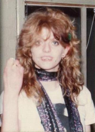 Kelly Johnson, member of the heavy metal band Girlschool in 1981.